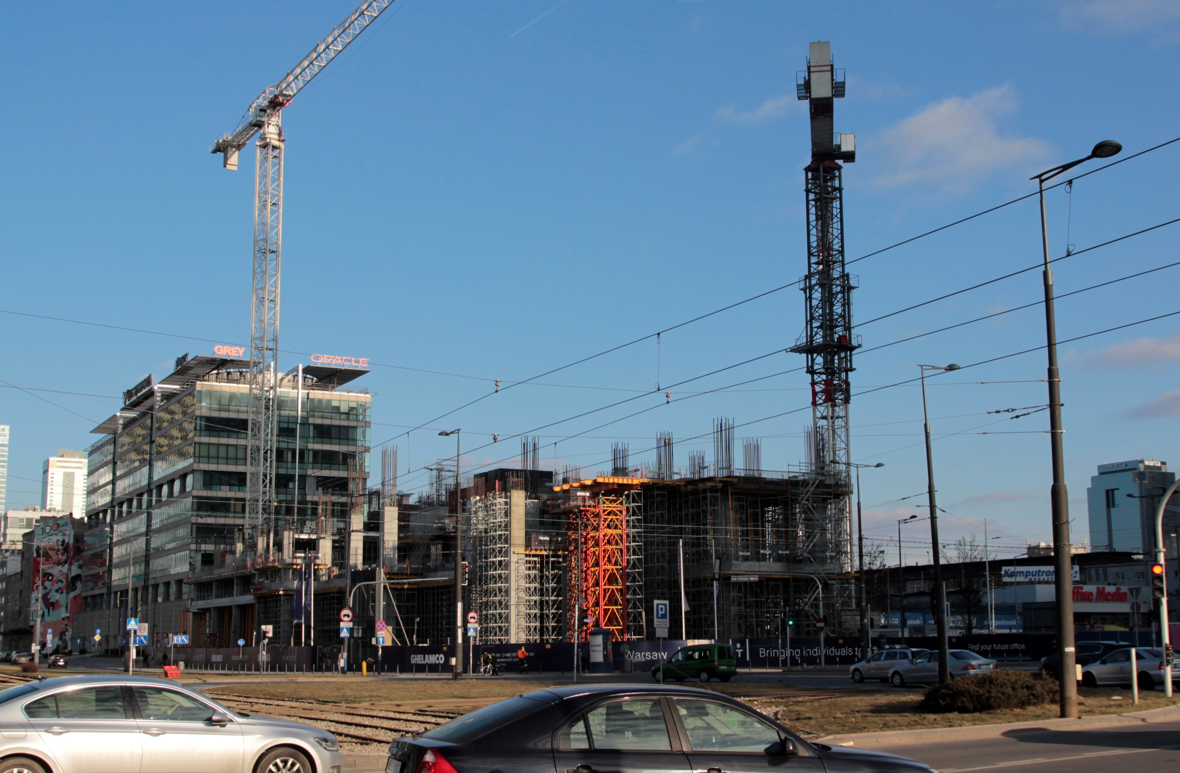 Warsaw Unit under construction, westview